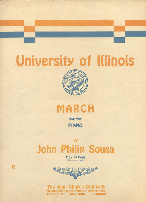 Front cover of the song, "University of Illinois March," by John Philip Sousa.